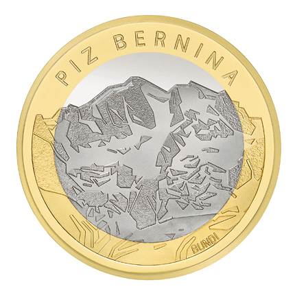 Swiss Commemorative Coin 2006 CHF 10 obverse